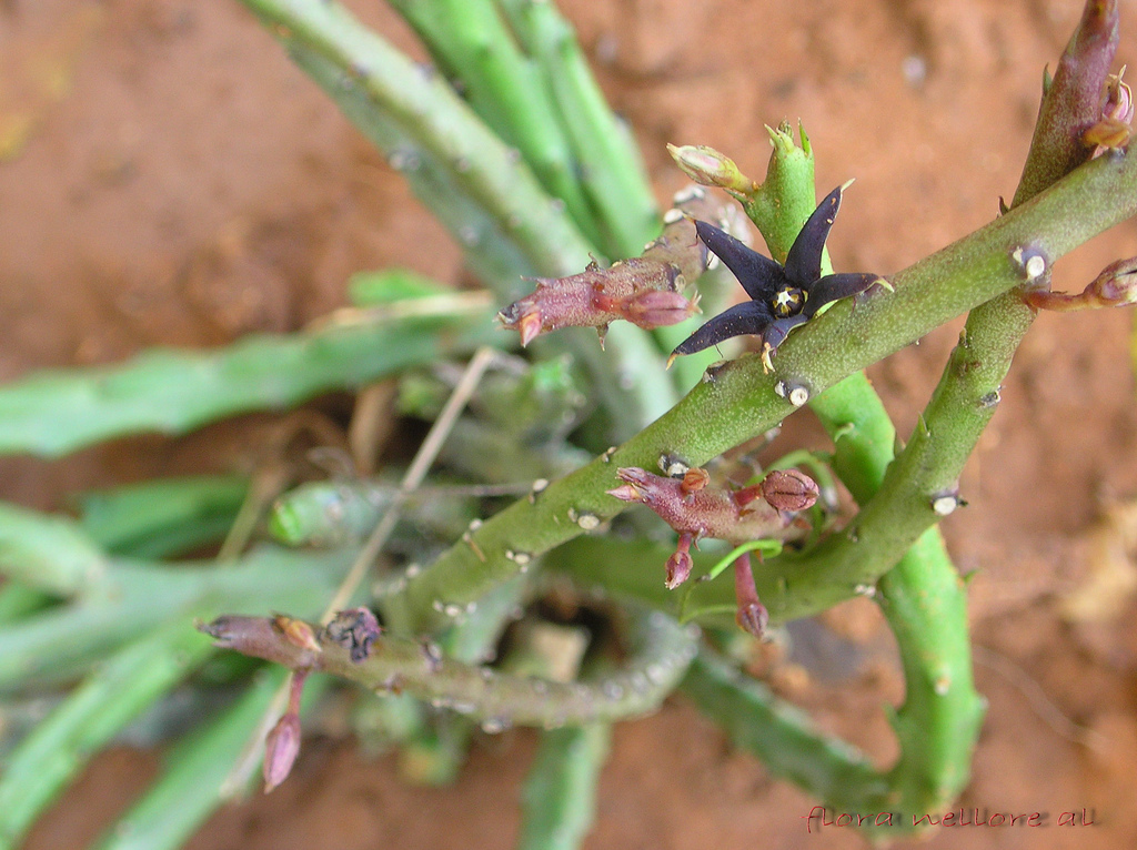 Taxonomy Family: Asclepiadaceae Order: Gentianales Series: Bicarpellatae Sub class; Gamopetalae Class: Dicotyledonae Distribution: Found in rocky areas of tropical southern India. It is small cactoid herb. Latex milky, Flowers in terminal racemes. A pair of follicles formed from each flower. The shoots are sour to taste.